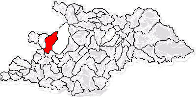 Location of Tăuţii Măgherăuş in Maramureş County